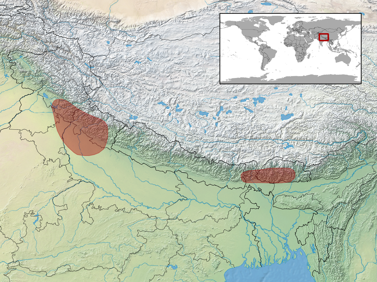 geographic distribution of Boiga multifasciata (Native: Bhutan; India; Nepal)